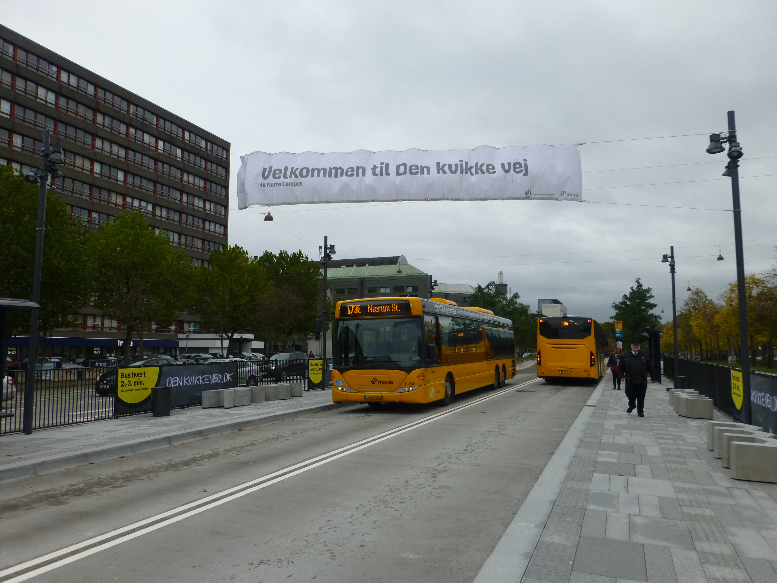 Den kvikke vej (the quick way), a bus rapid transit between Fredensbro and Lyngbyvej in Østerbro in Copenhagen. Movia bus line 173E and 184 on Lyngbyvej at Haraldsgade.